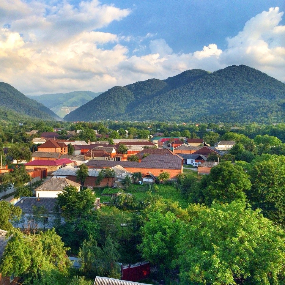 Дышне Ведено фото с мечети